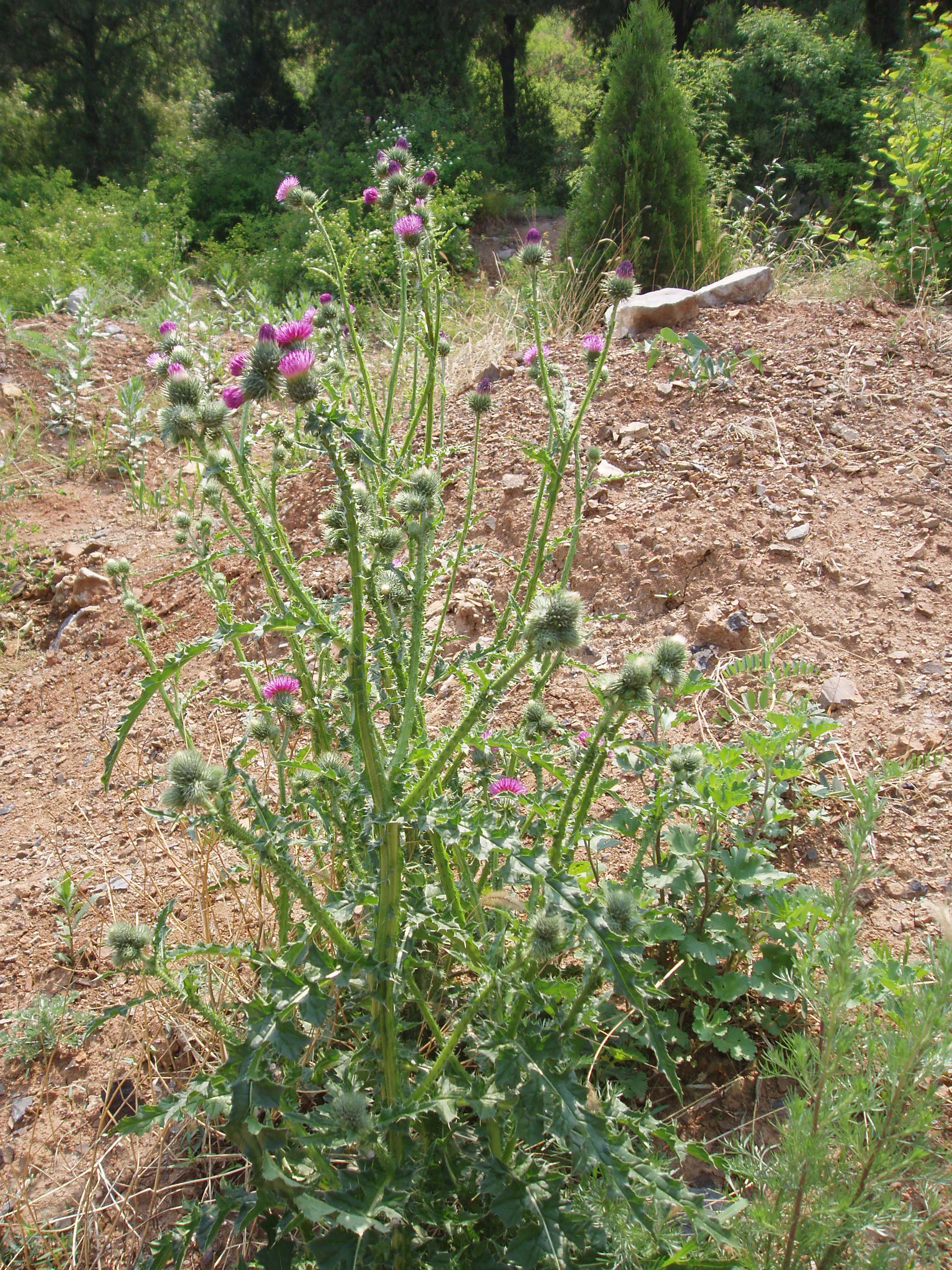 Carduus acanthoides